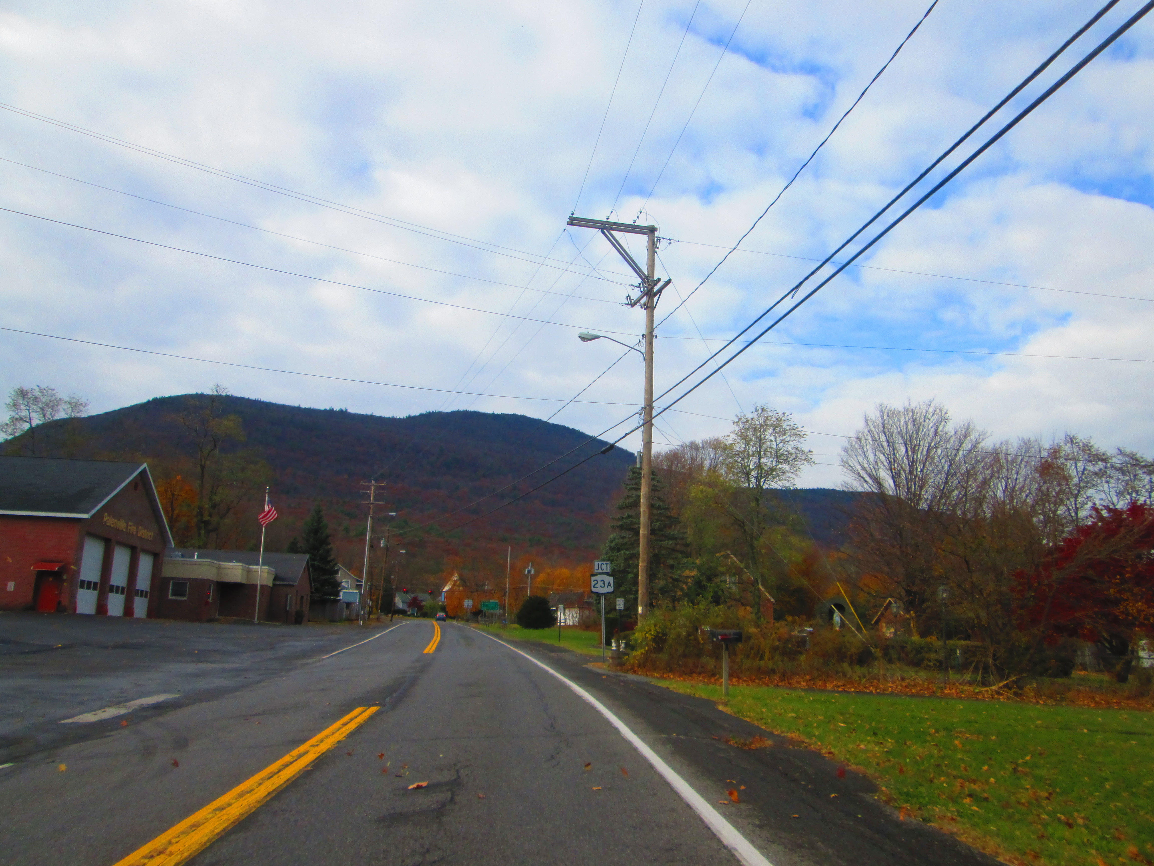 New York State Route 32A approaching the junction with NY 23A in Palenville, New York.